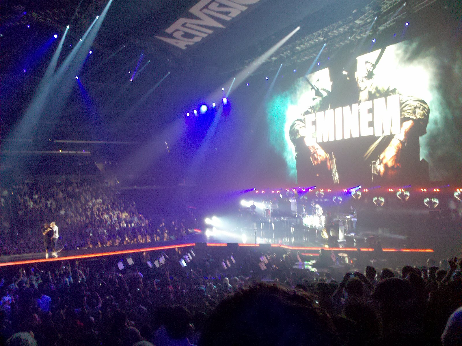 Eminem performing with hypeman Mr. Porter at the Electronic Entertainment Expo 2010 party.